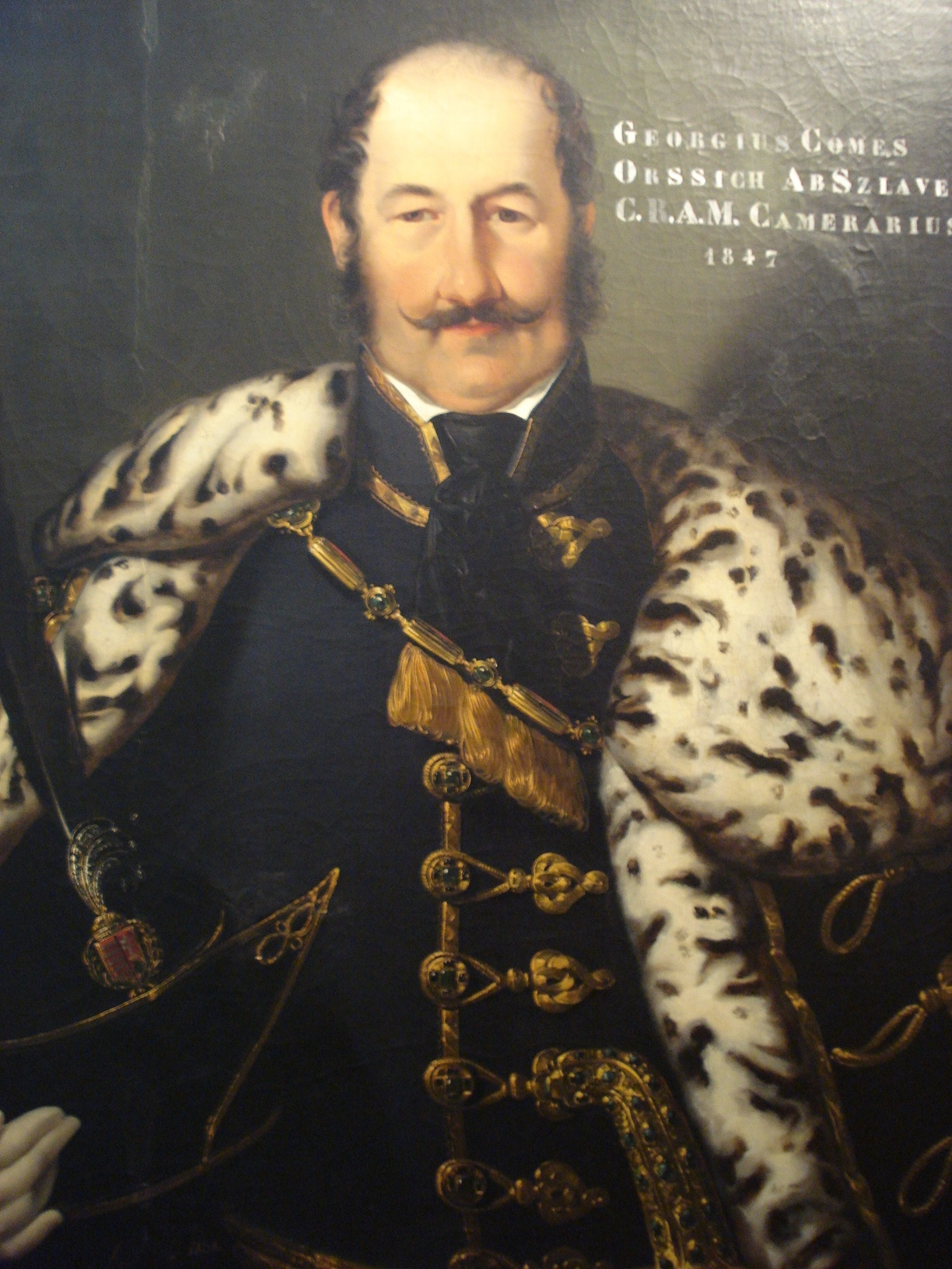 Count Juraj Oršić (George Orshich ) of Slavetich (1780-1847), owner of Gornja Stubica, Croatia